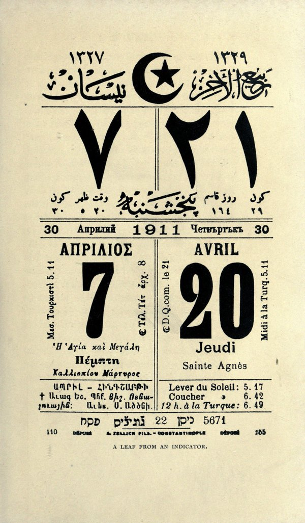 1911 multilingual Ottoman calendar page: The upper left shows the Rumi date in Ottoman Turkish: year 1327, Nisan 7 (٧ نیسان ١٣٢٧) The same Julian date (7 April, ΑΠΡΙΛΙΟΣ 7) and day (Thursday, Πέμπτη) appears below in Greek with the AD year 1911 Next to that is the Gregorian date (20 April, AVRIL 20) and day (Jeudi) in French Above these two is the number 30 (twice, purpose unclear), the month April, (Априлий) and day (Thursday, Четвъртъкъ) in Bulgarian Under the Greek is Armenian, reading April (ԱՊՐԻԼ, april) and Thursday (ՀԻՆԳՇԱԲԹԻ, hingšabtʿi) The upper right shows the Islamic date 21 Rebiülahir 1329 (١٣٢٩ ربيع الآخر أو ١٢) The Hebrew date 22 Nisan 5671 (22 ניסן 5671) appears at the bottom.